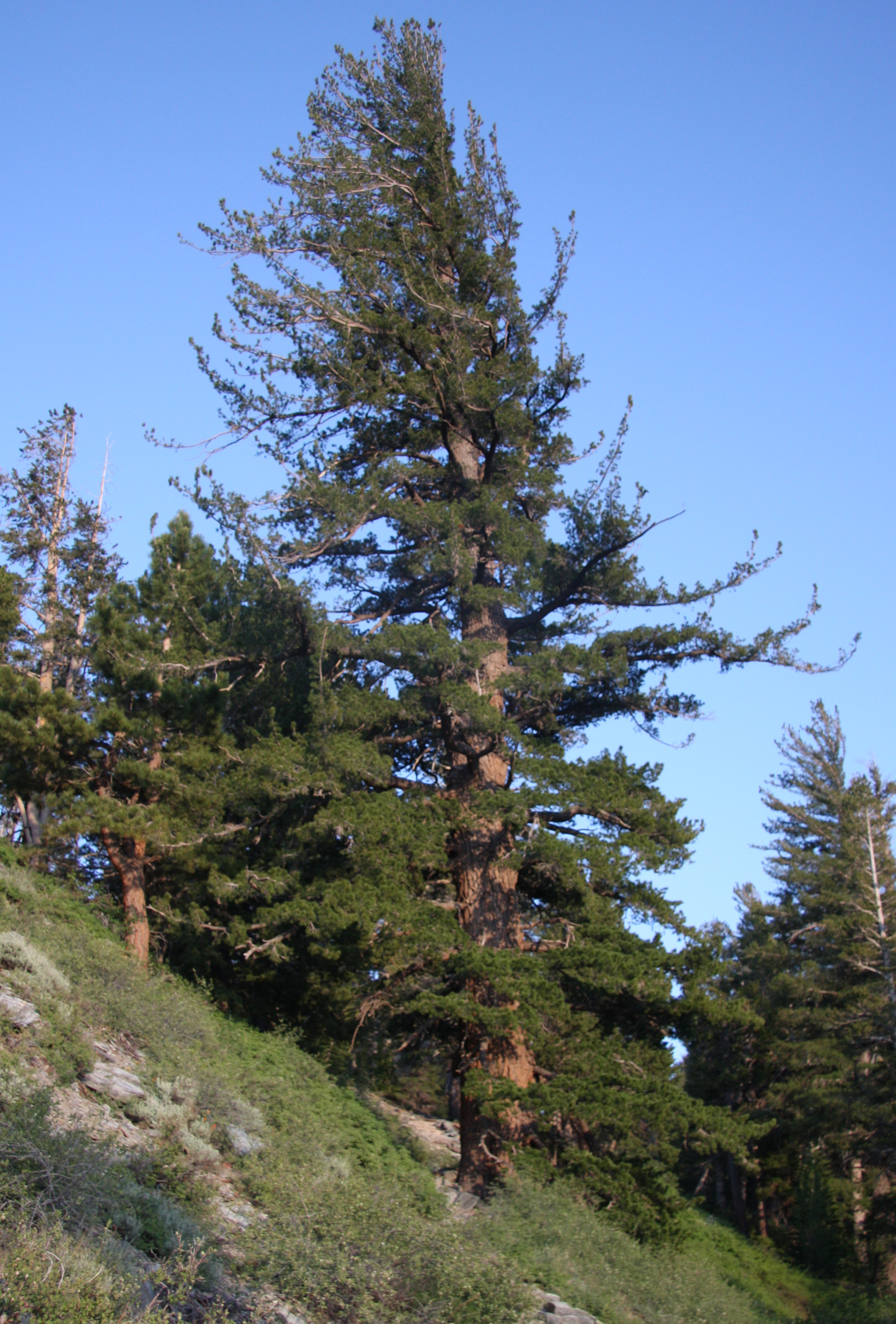 Large Western White Pine (Pinus monticola), entire tree. East of Lake George, eastern Sierra Nevada, California.